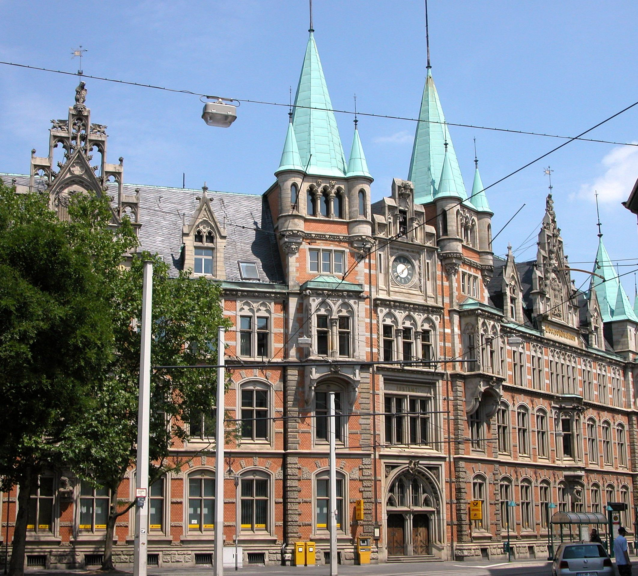 Braunschweig, Germany: Main post office building.